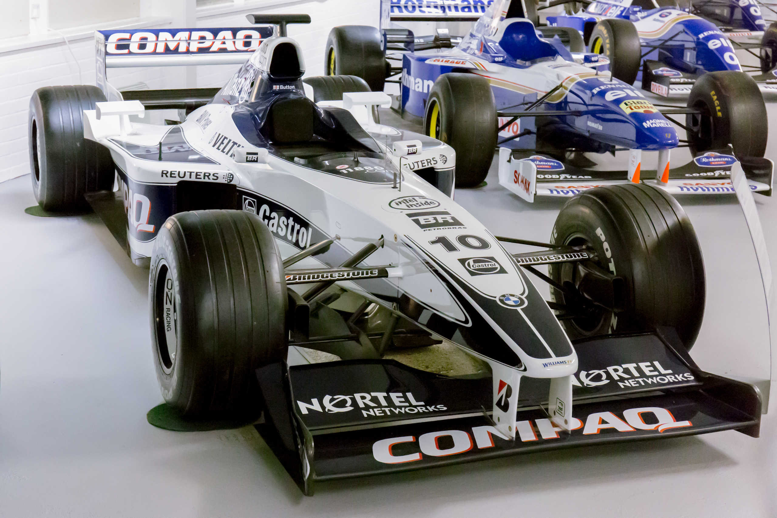 2000 Williams FW22 (#10 Jenson Button)